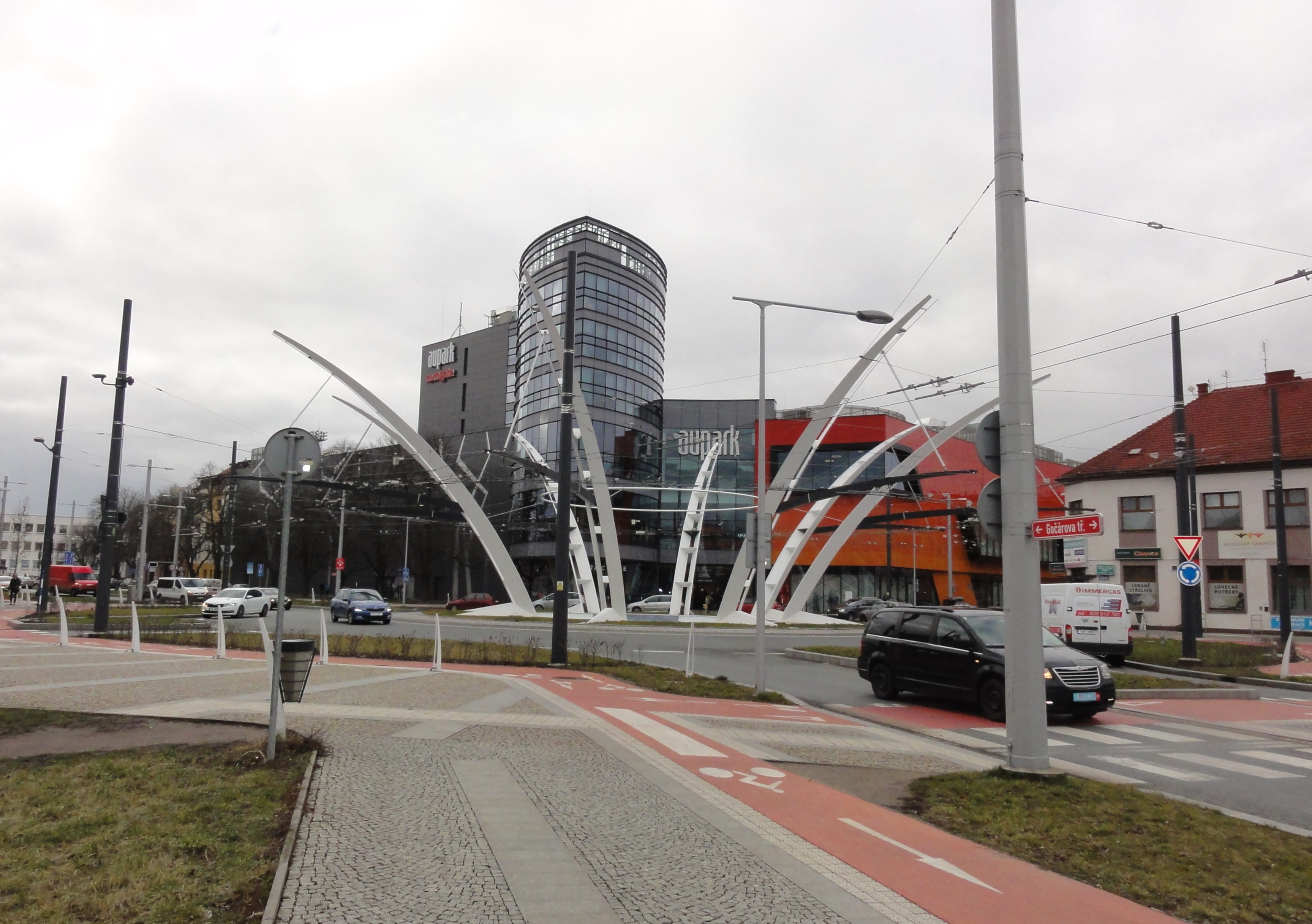 Koruna roundabout on Gočárova třída, shopping centre Aupark in the background, Hradec Králové, Czechia.